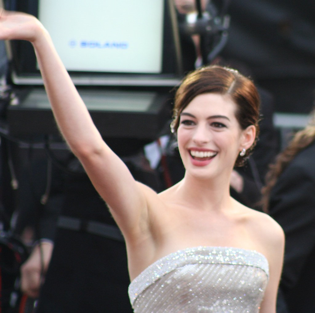 Anne Hathaway at the 81st Academy Awards